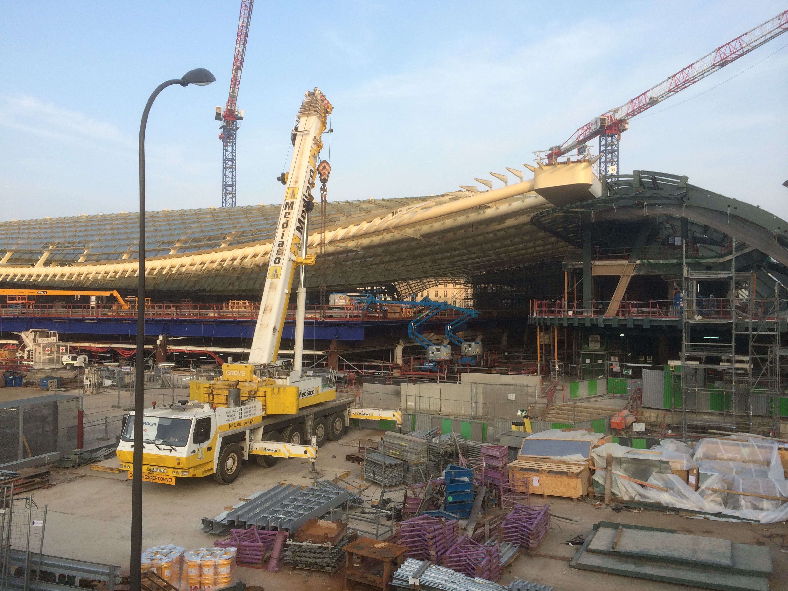 Restructuration of Forum des Halles, Paris, in progress in march 2014